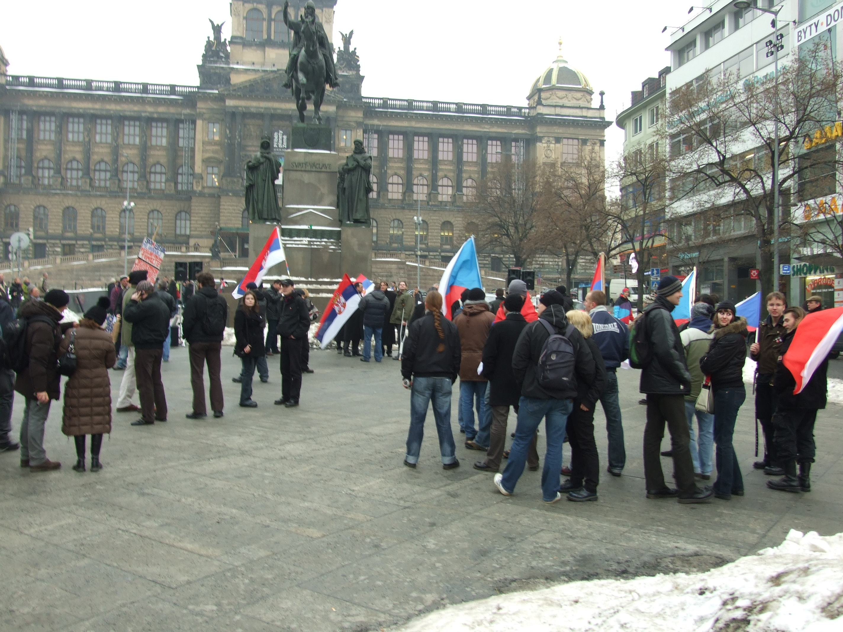 Demonstration of the "Friends of Serbs in Kosovo" organization in Prague, Václavské náměstí square. The date 2010/02/17 was chosen because of the 2nd anniversary of Kosovo's declaration of independence